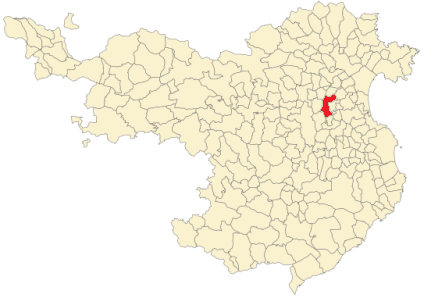 Garrigás